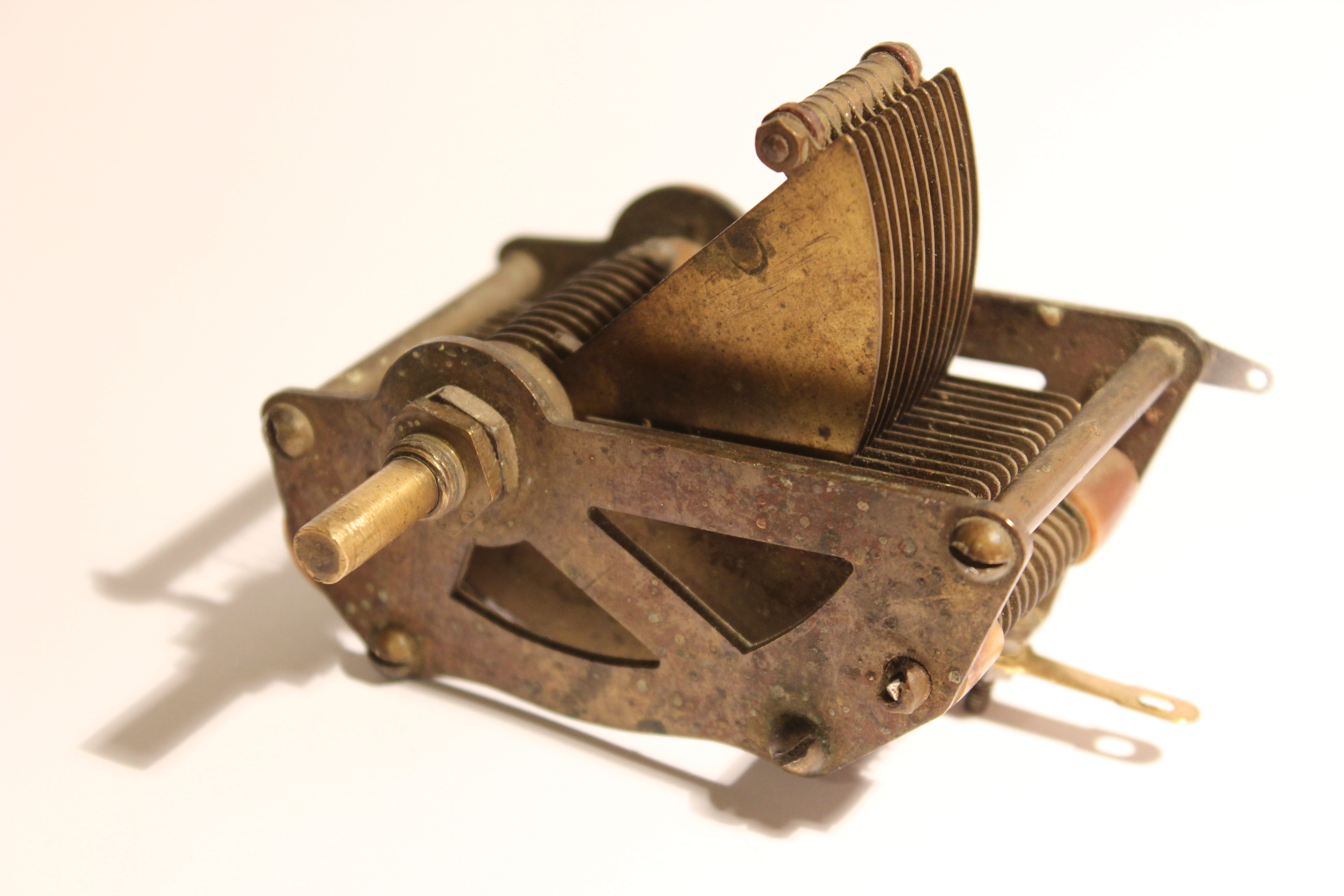 Rotary capacitor.